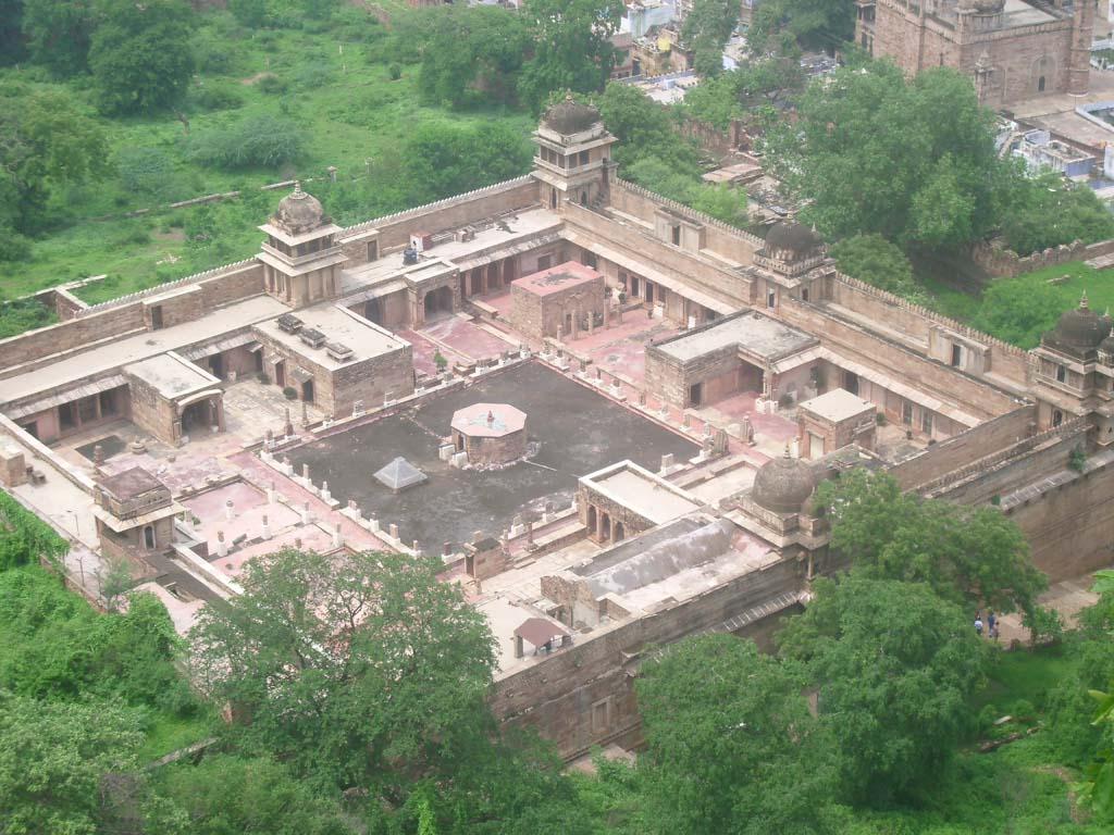 Gujari Palace